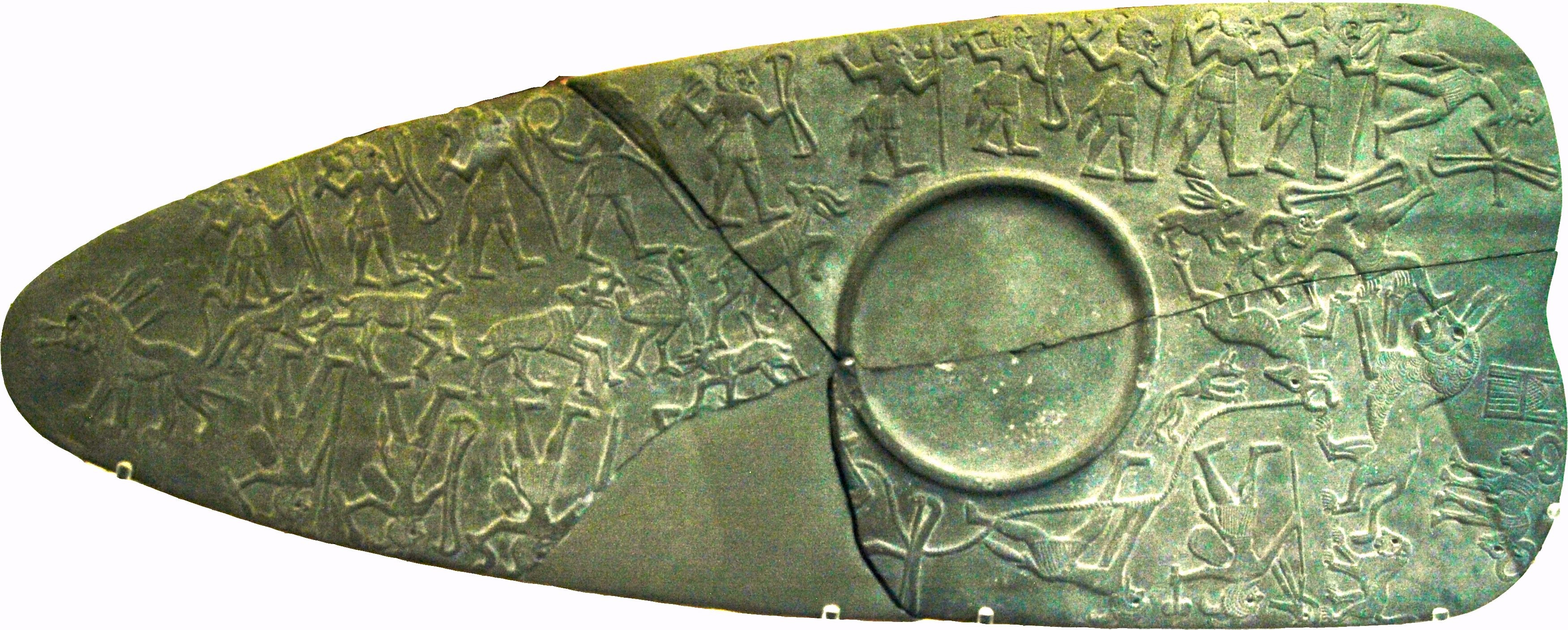 Fragmentary ceremonial palette known as the Hunters' Palette, from the late predynastic period, Naqada III, circa 3250-3100 BC. Various hunters, some holding standards associated with clan groups, armed with spears, bows, throwsticks, lariat and maces. Two of the pieces are original, and the third is a cast from a segment at the Louvre.